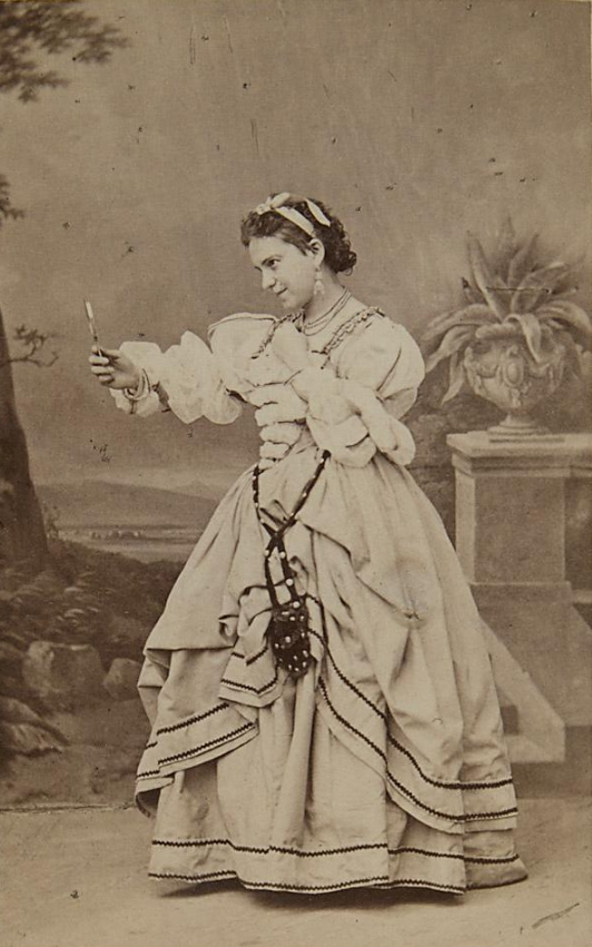 Austrian singer Josefine Gallmeyer as Margaretl in Julius Hopp's operetta Fäustling und Margaretl, Theater an der Wien 1862, photograph by Carl Mahlknecht